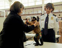 An image of a TSA screener inspecting a service monkey before a flight. From the article located at